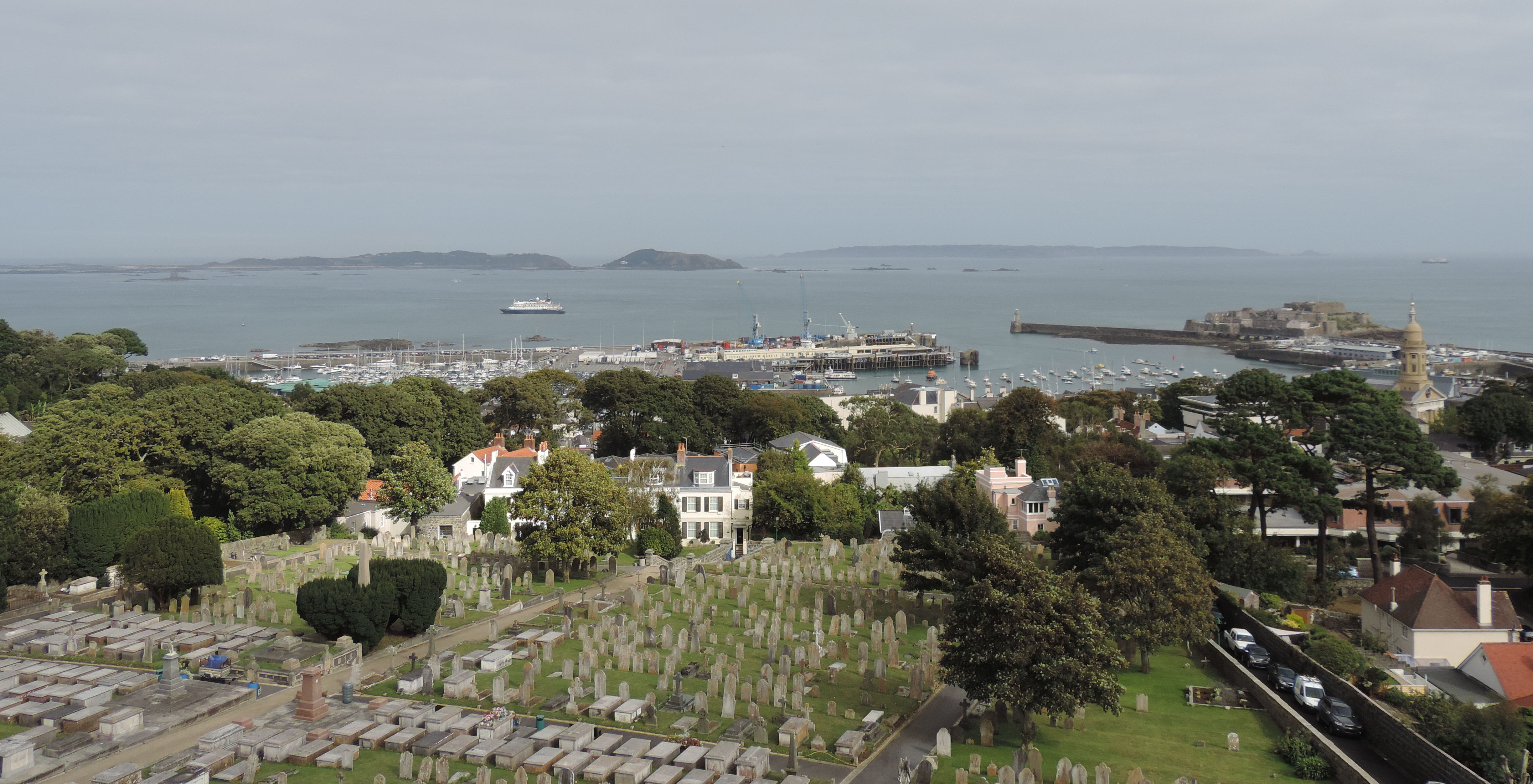 View over Saint Peter Port, Guernsey, towards the sea and harbour from Victoria Tower.